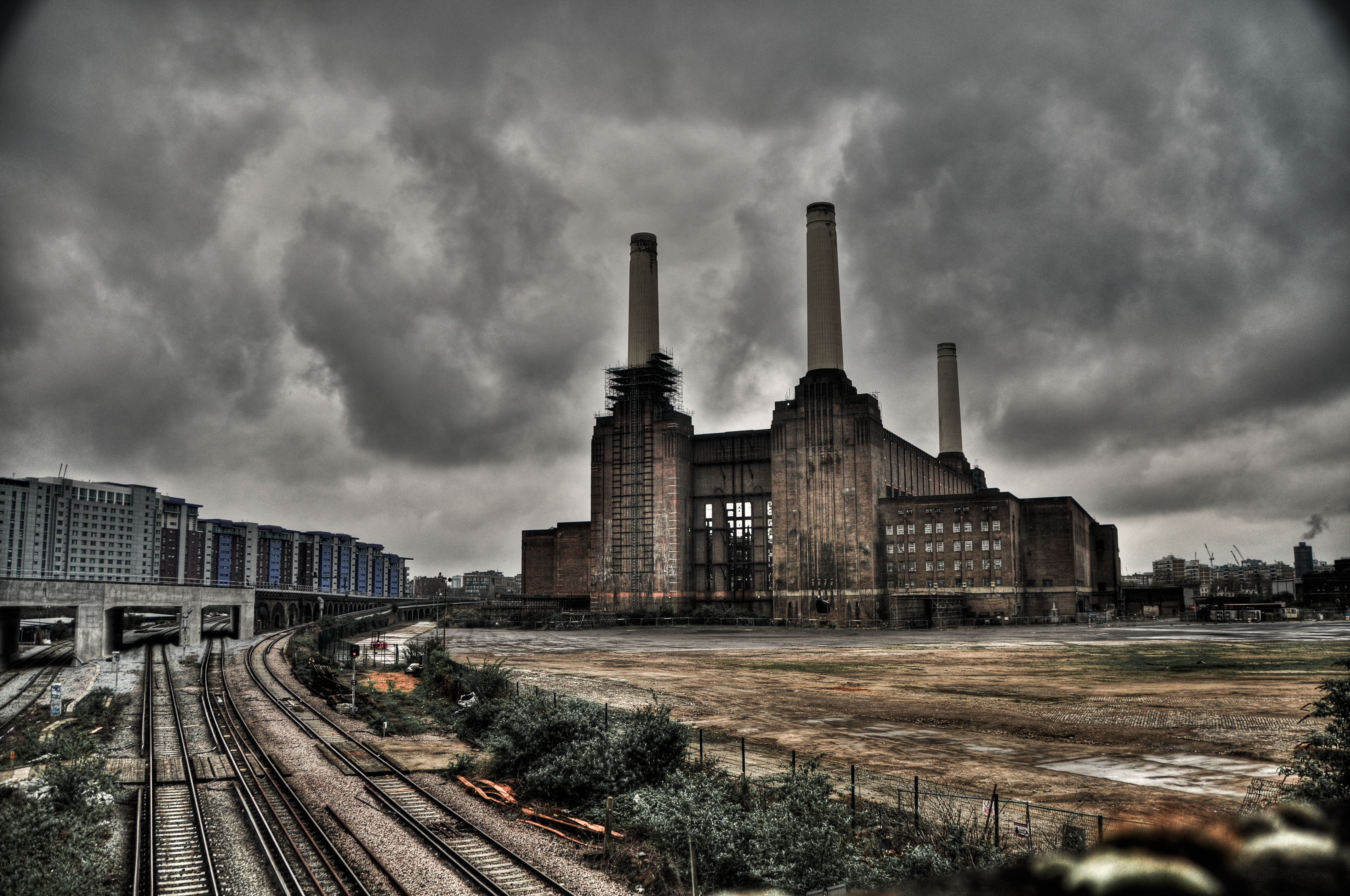 Urbexer's dream, Ghost hunter's delight, London's icon, Maintenance fright. I'm just pretending. I didn't know about this place until two days ago. This is an iconic coal power station that was abandoned decades ago. It has had several restoration proposals, all of which have failed. It's often used in TV shows. It's falling apart. You would love to sneak inside and take photos.